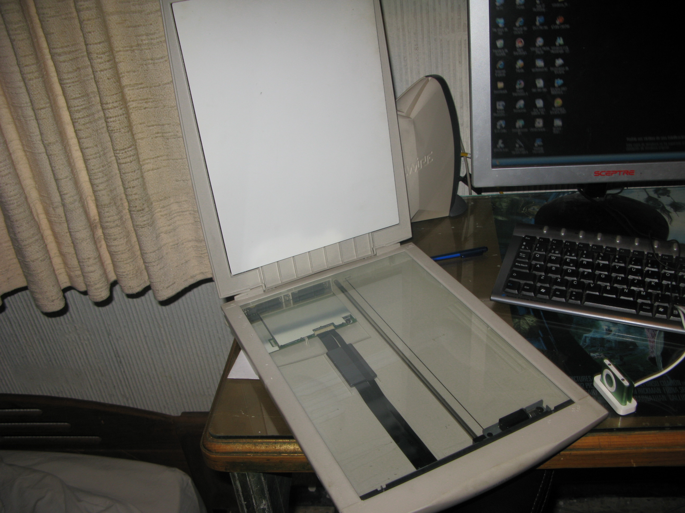 Escaner